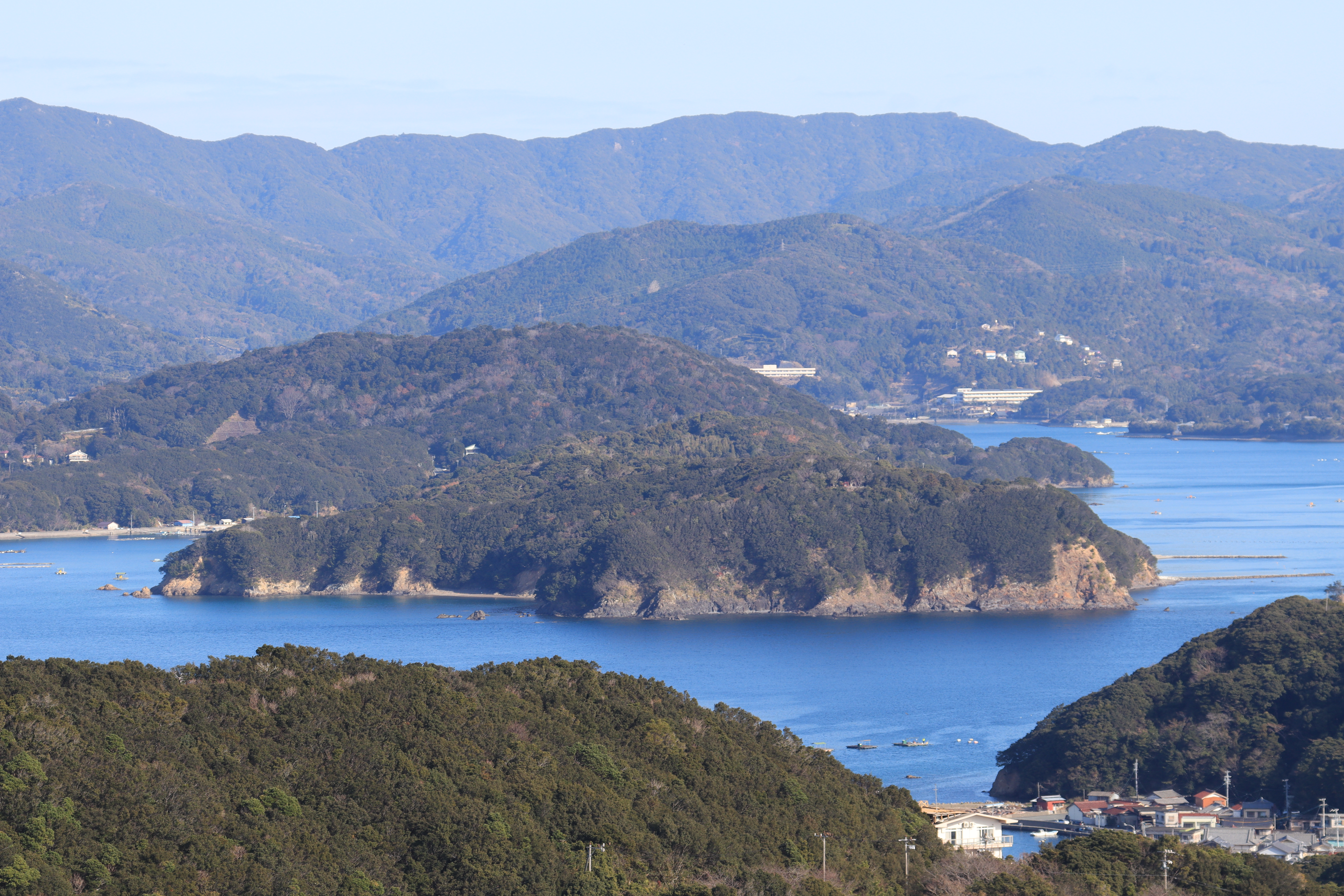 Gokasho Bay and Mount Kyoro in Minamiise, Mie Prefecture, Japan.